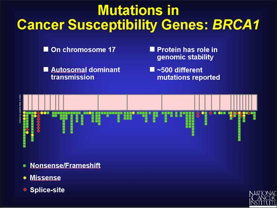 types of mutations on BRCA1